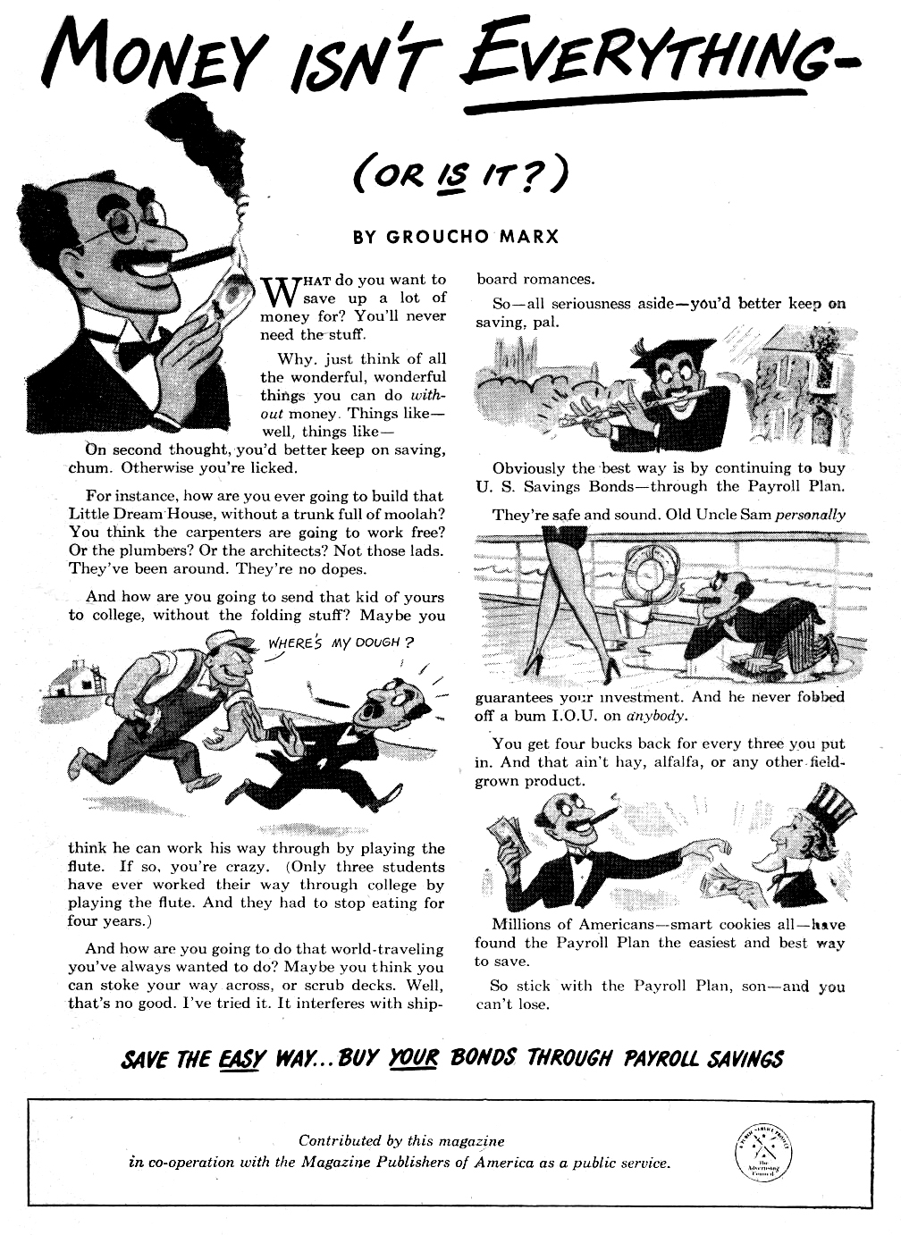 Print advertisement for U.S. Savings Bonds, featuring a caricature of Groucho Marx. Image scanned from the back cover of Skyman number 3 (Columbia Comics, 1947, pp 51). The title and its contents have fallen into the public domain due to lapsed copyright (see PD notice below).